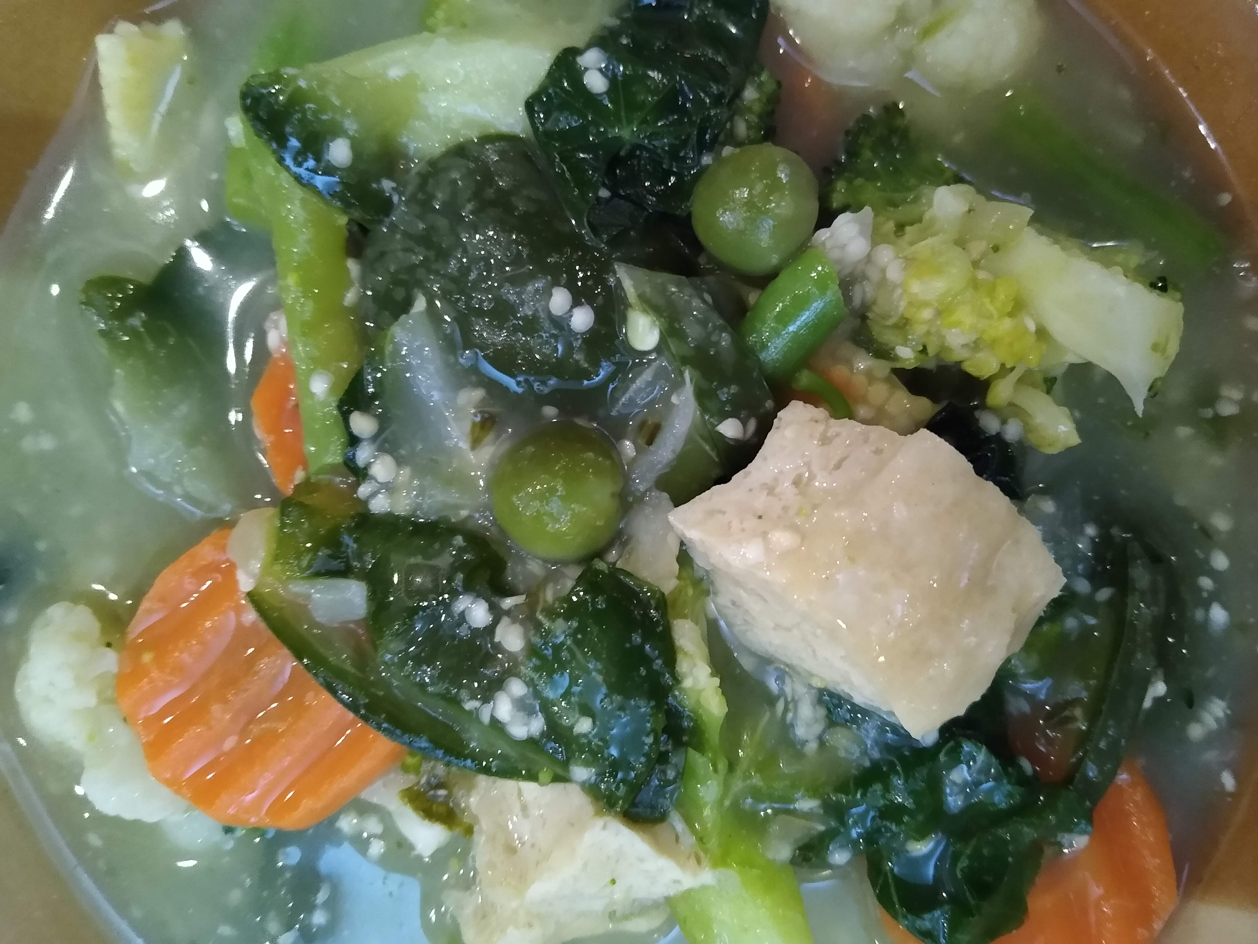 Vegetarian "Or-larm" stew (ເອາະຫຼາມເຈ) at Kualao Restaurant in Vientiane.